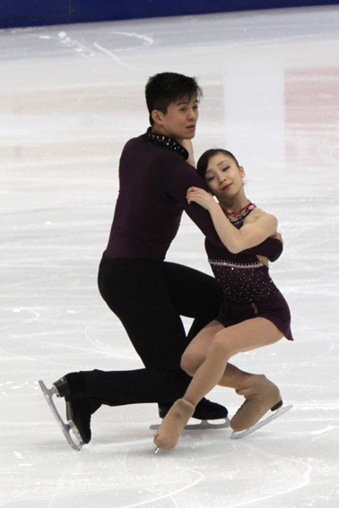 Narumi Takahashi and Mervin Tran at the 2011 Four Continents Championships.